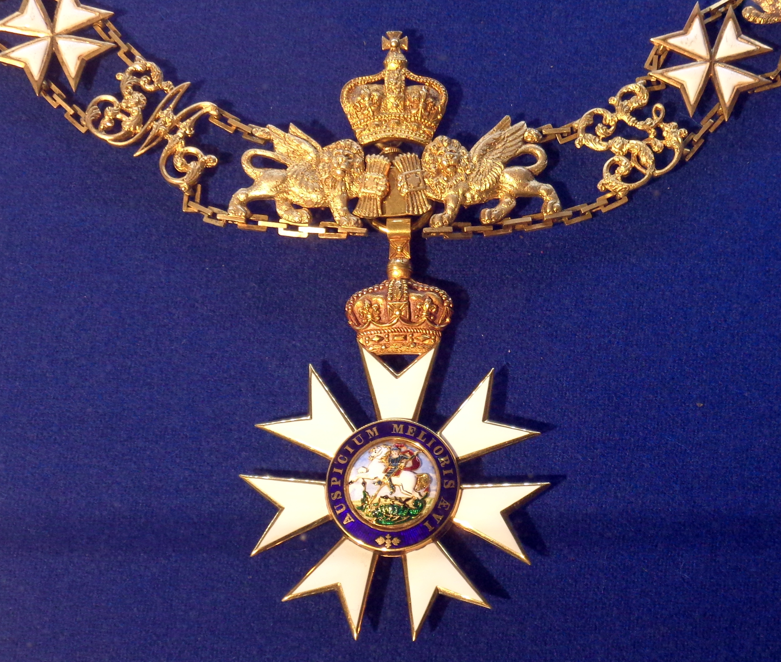 Order of Saint Michael and Saint George, collar and badge of Grand Cross, 1870-1900. United Kingdom. The exhibition of the Tallinn Museum of Orders of Knighthood, Estonia.